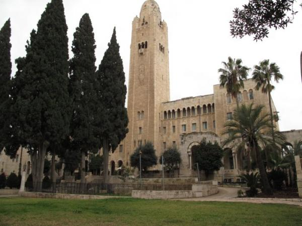 panoramic tower of the YMCA in Jerusalem.